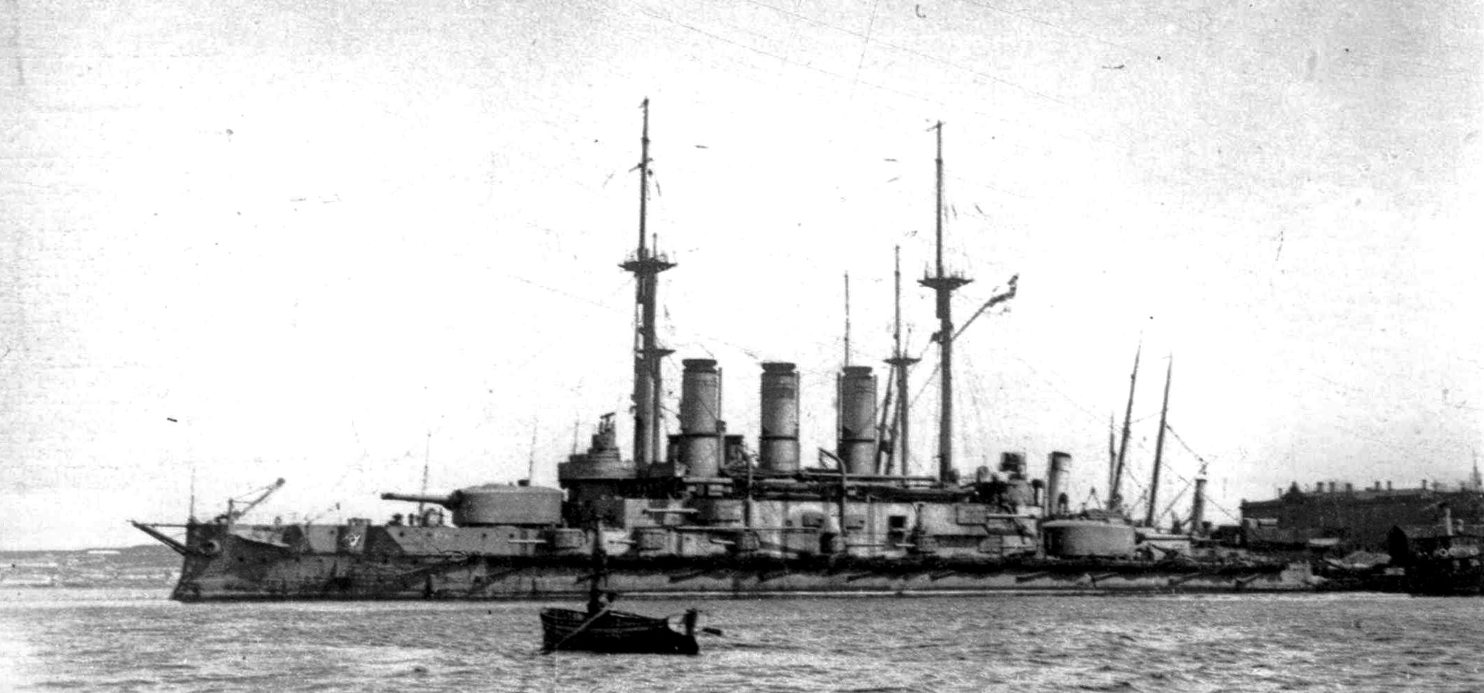 Battleship Ioann Zlatoust, 1918.